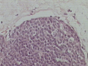 Histology